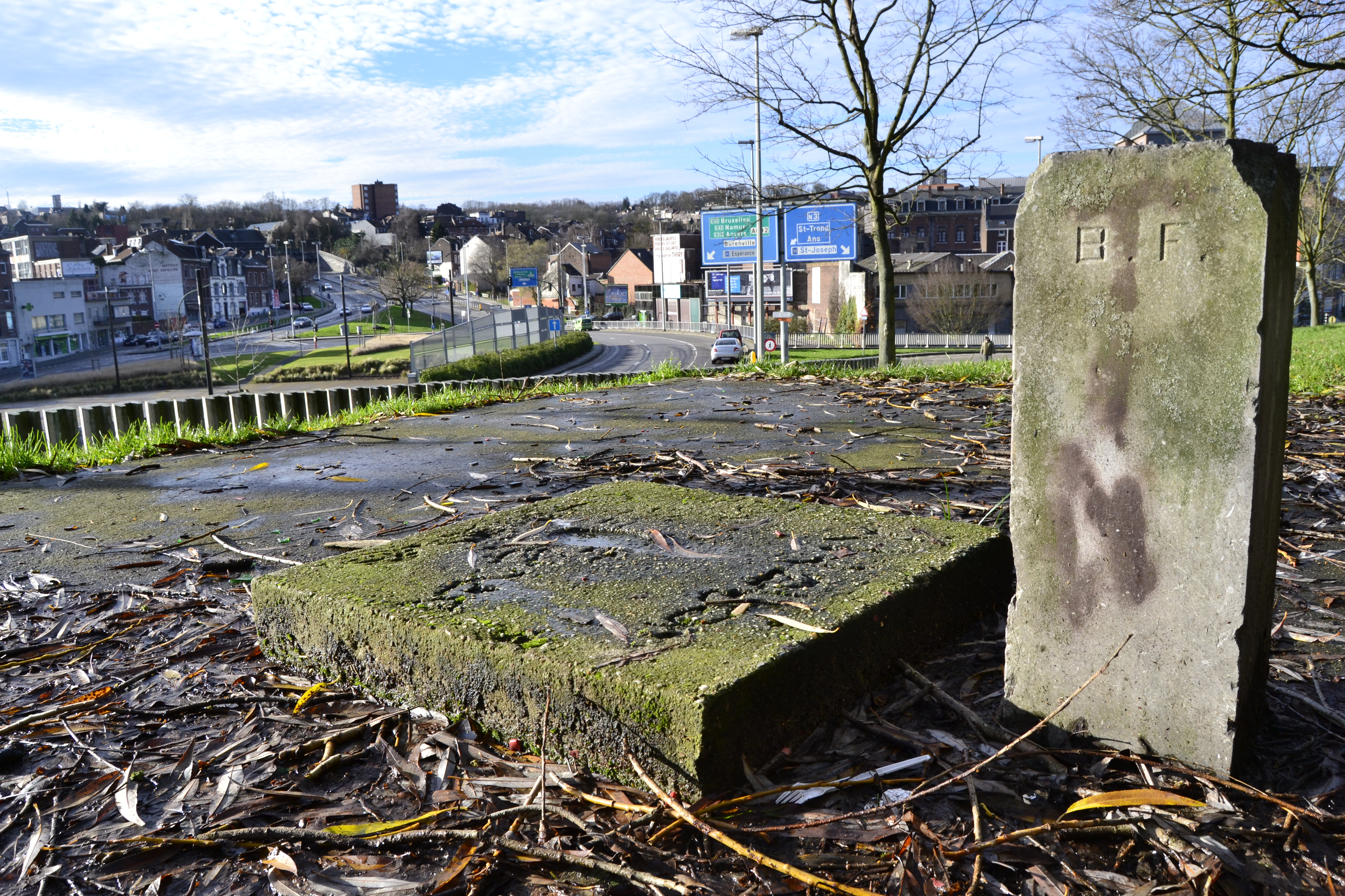 Ancient pit of the Sainte-Marguerite coal mine in Liège, Belgium; above the Fontainebleau crossroad